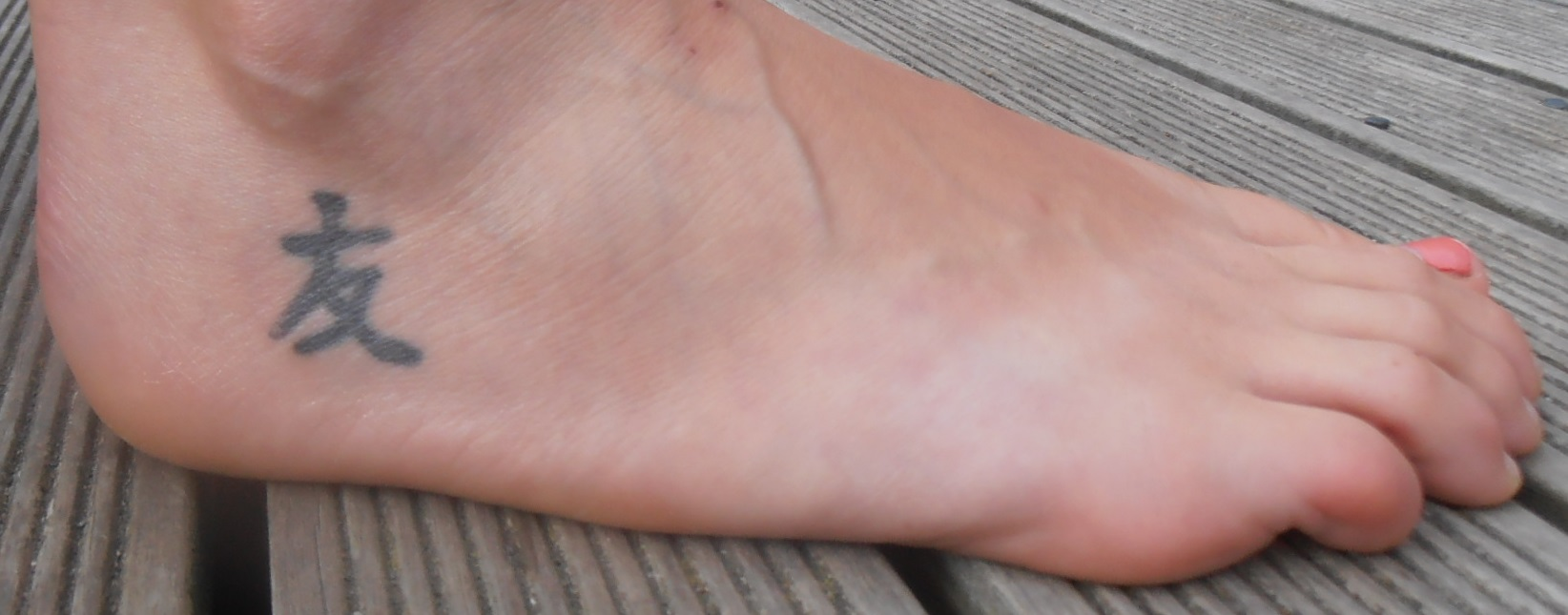 Tattoo showing the character 友 U+53CB "Friend", "Friendship".